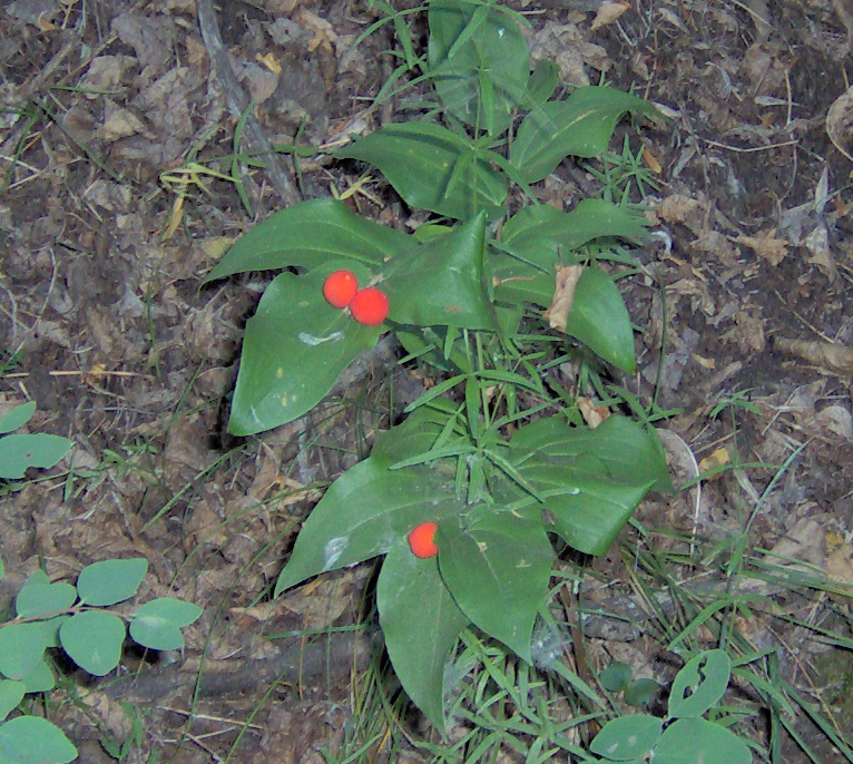 Disporum trachycarpum Red ripe fairybells of Saskatchewan